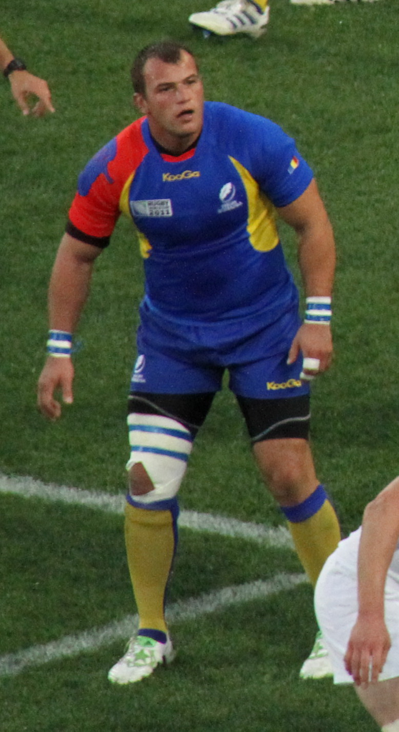 Romanian rugby union player Stelian Burcea during 2011 Rugby World Cup match against England.